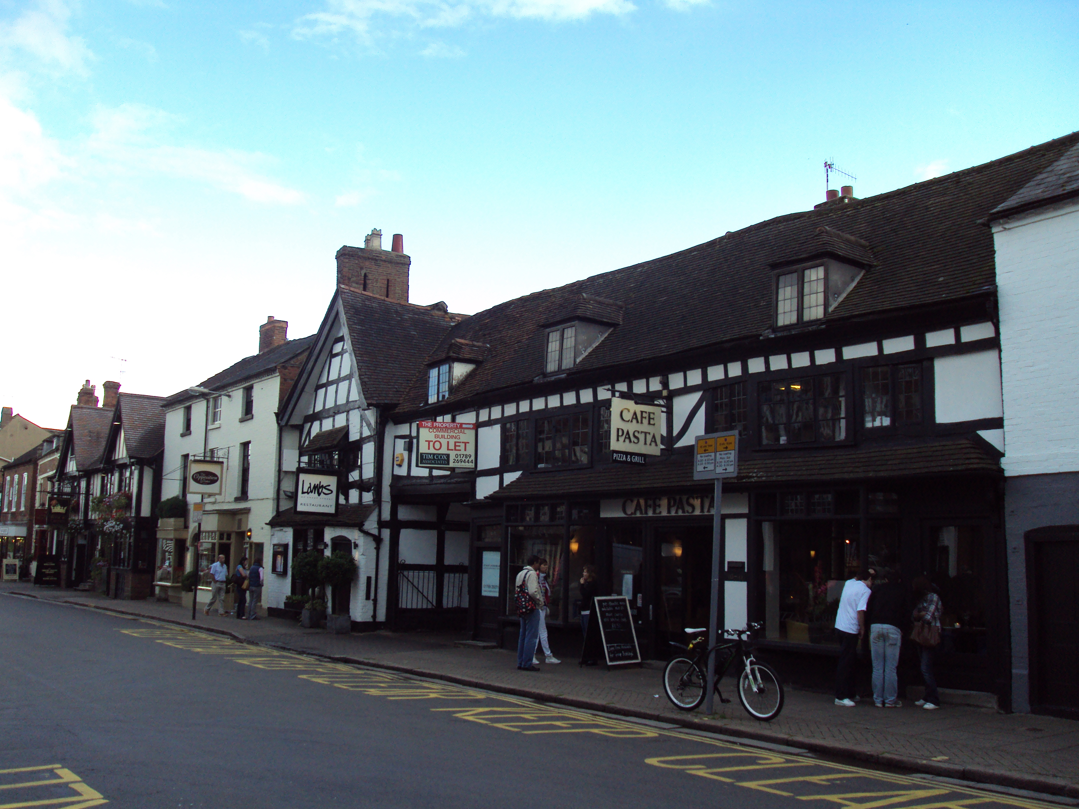 Café and shops on Sheep Street, Stratford-upon-Avon, England.